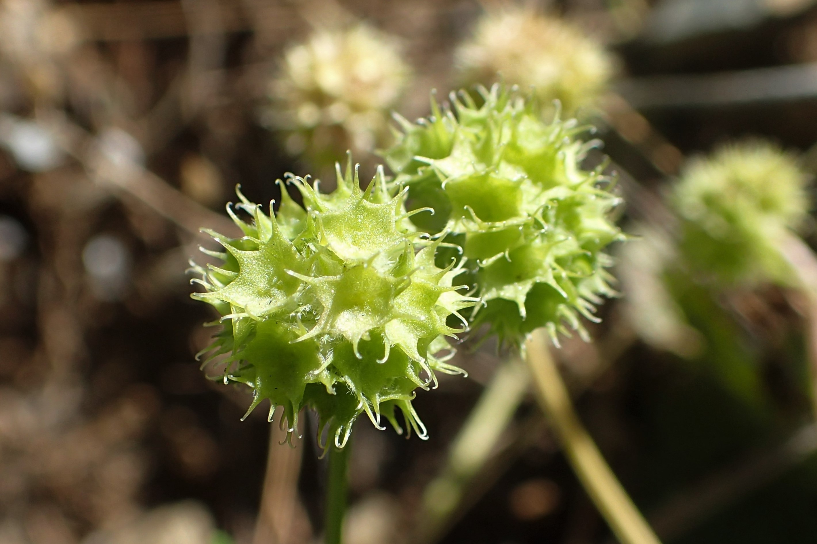 Valerianella coronata in Vayk (Armenia)